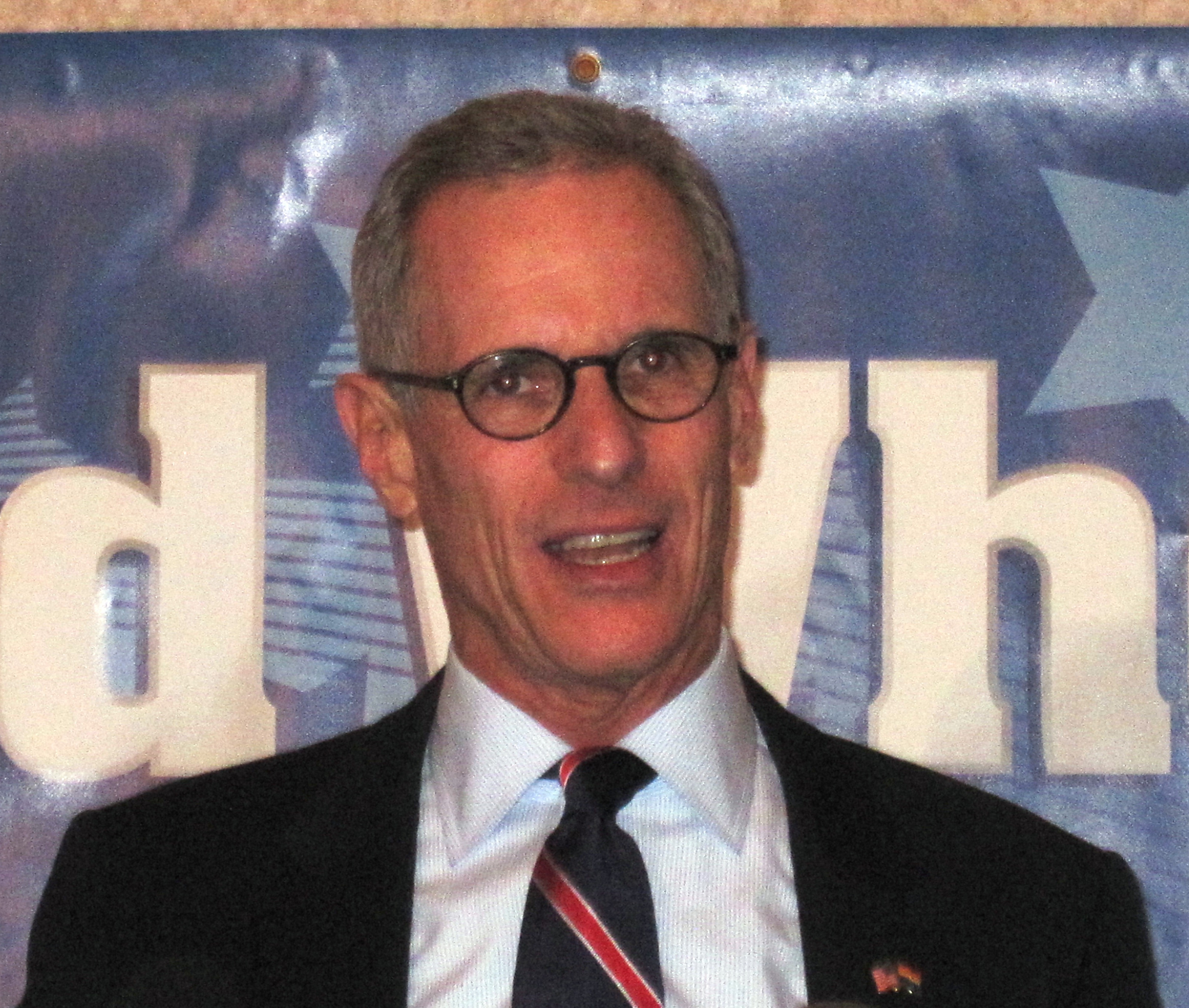 American political consultant and activist Fred Karger in Iowa